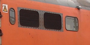 Grilles without rainwater beading on Class 6E1 Series 5 no. E1631Location: Sentrarand, GautengRebuilding: In 2015 no. E1631 re-entered service after being rebuilt to Class 18E no. 18-844